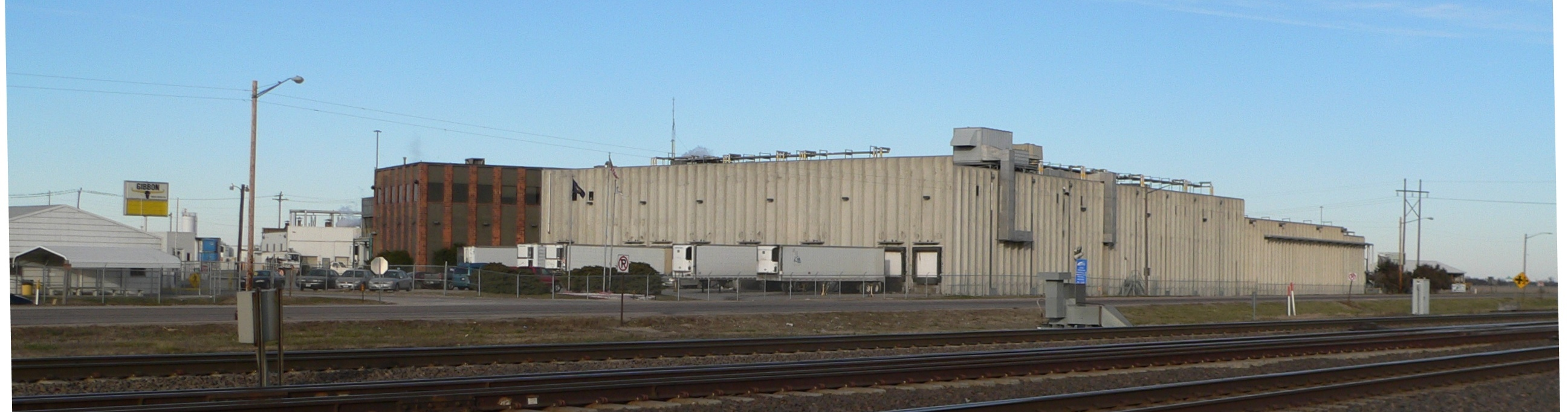 Gibbon Packing plant in Gibbon, Nebraska.